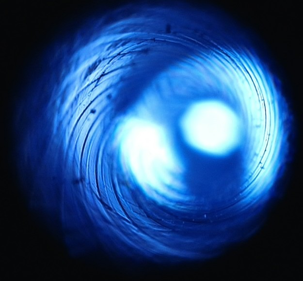 This is an image of a 35 remington caliber, microgroove rifled barrel manufactured by the marlin firearms company. it shows a 20 land and groove barrel with a right hand twist. The image was taken with a Nikon D1X camera using f22 and a 1/30 ss. The bore of the barrel was lighted with a standard bore light. --Rickochet 12:59, 9 July 2006 (UTC)